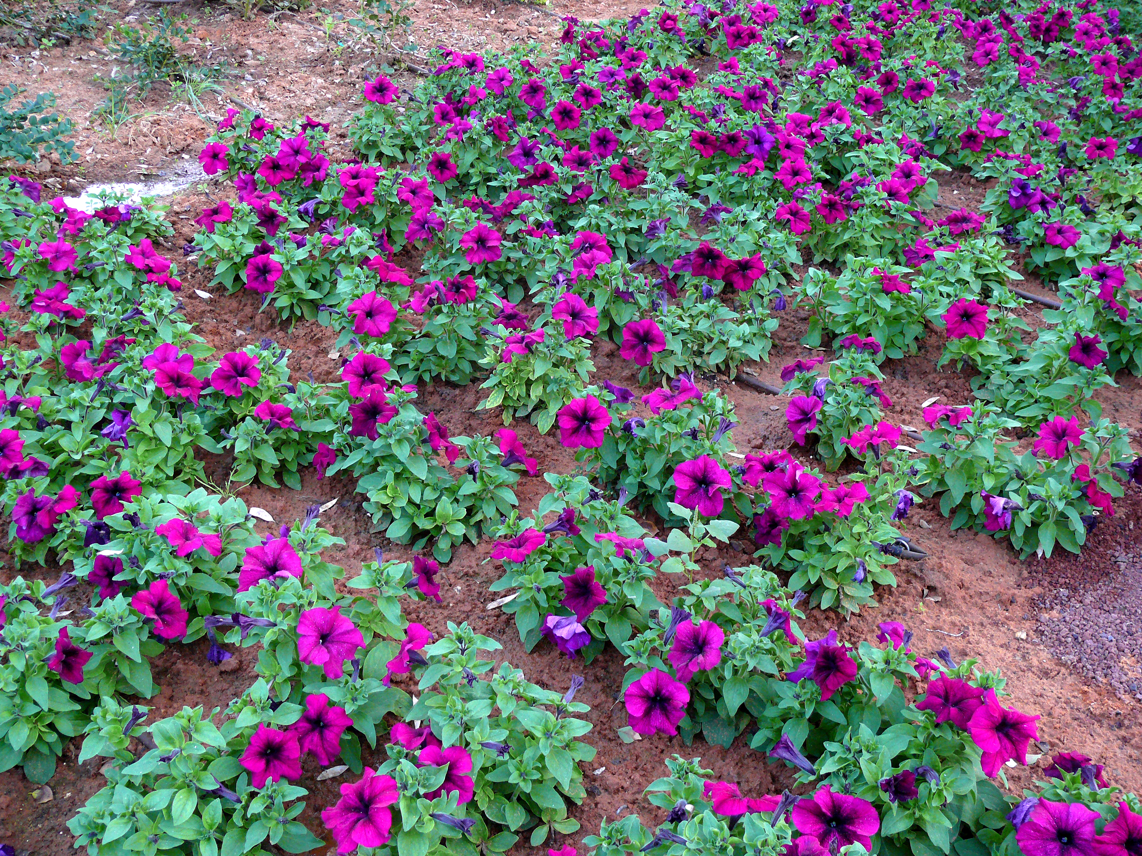 Petunias near Efraim Katzir Road at Weizmann Institute of Science